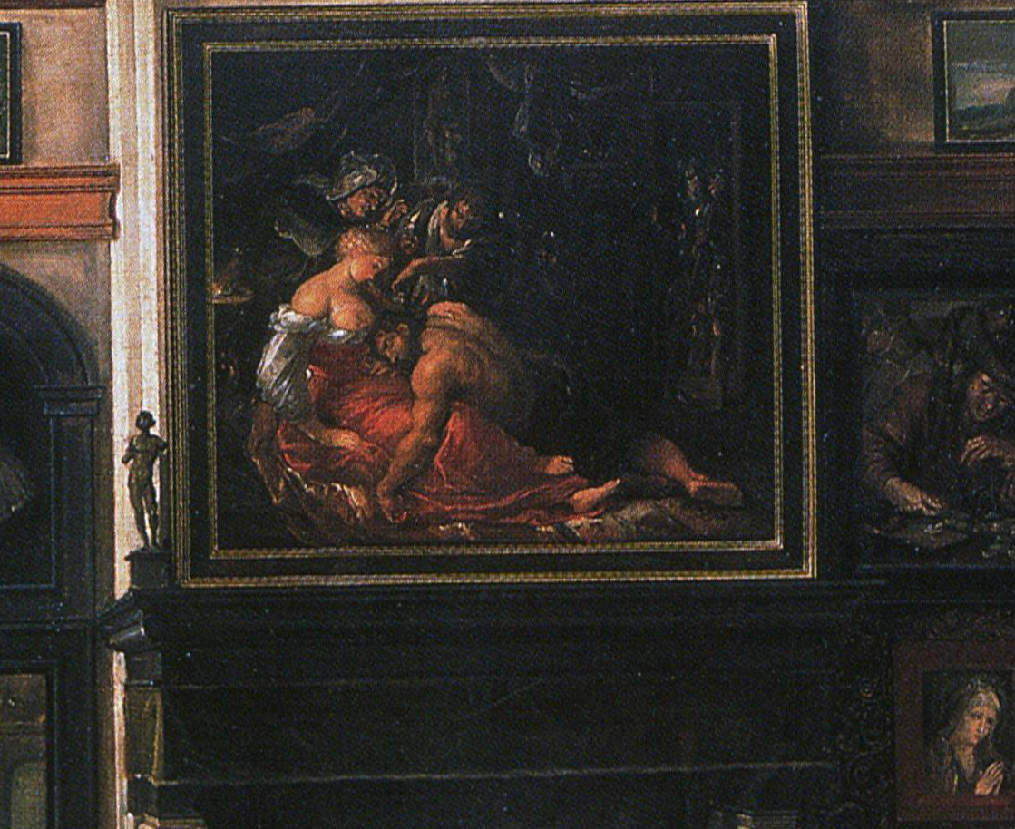 Supper at the House of Burgomaster Rockox - Detail showing Rubens' Samson and Delilah above the chimney.